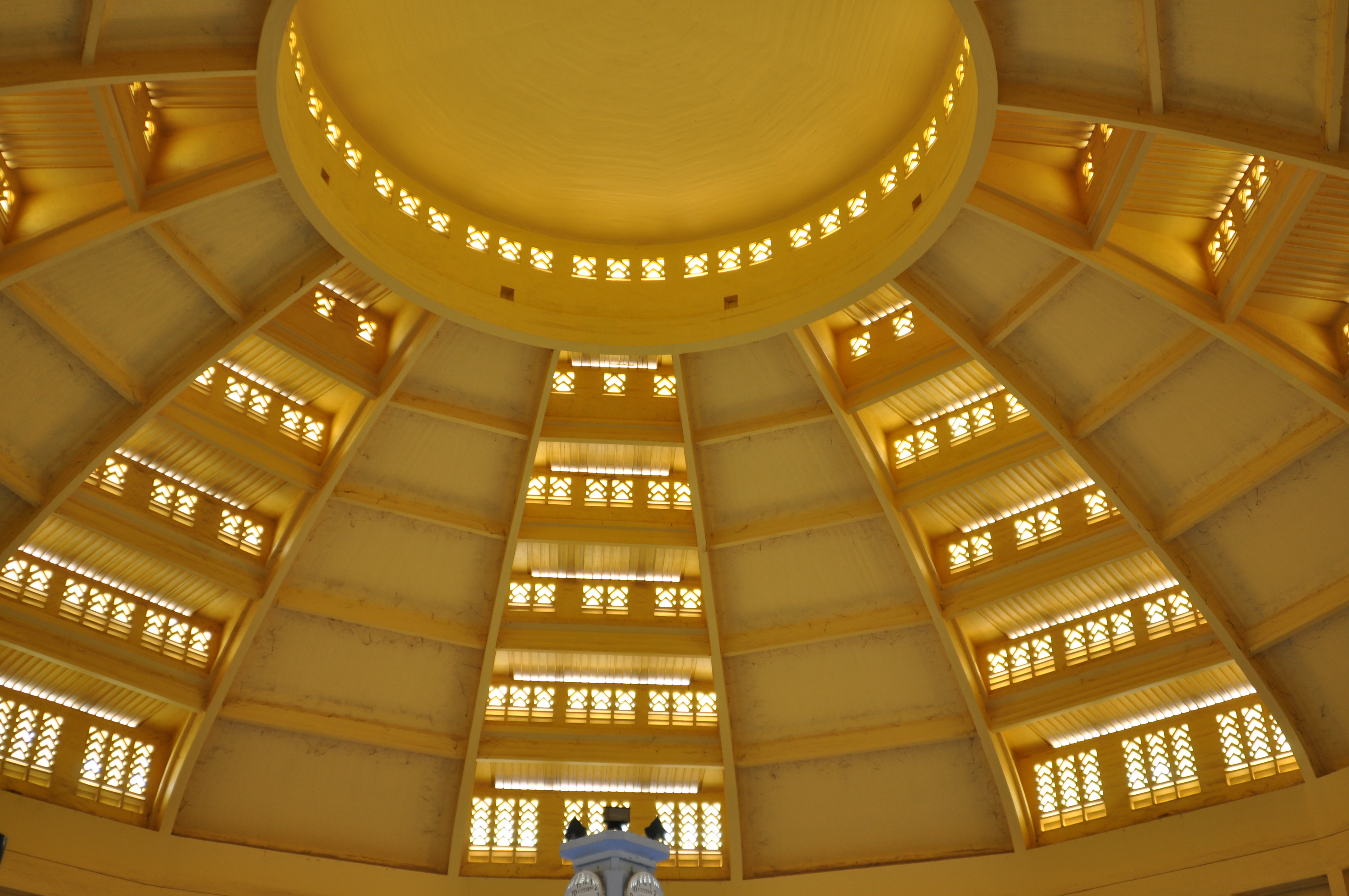 Looking up towards the magnificent central dome of the Phnom Penh Central Market. Wow, what a height! The Central Market works daily from 07:00 until 19:00. (Phnom Penh, Cambodia, Apr/ May 2014)